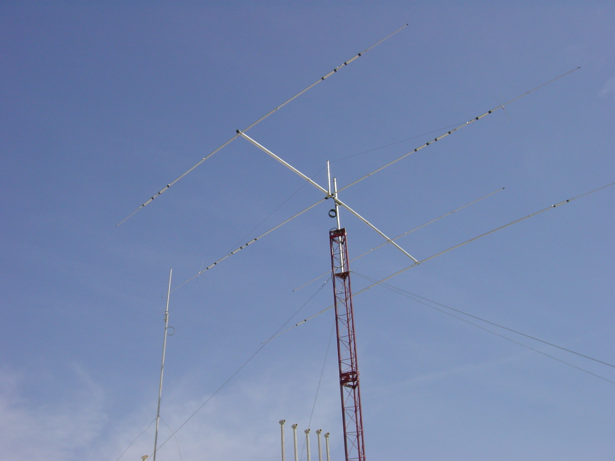 HZ1SK amateur radio station antenna